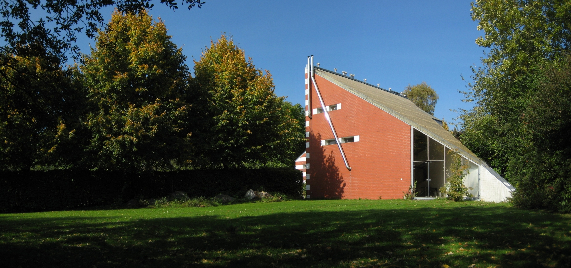 The Waalkens Gallery in Finsterwolde, Reiderland, in the Dutch province of GroningenFrysk: Galery Waalkens yn Finsterwâld, Reiderlân, Grinslân